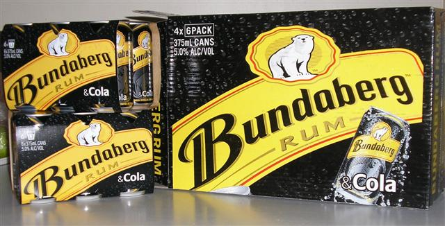 A carton of 4 sets of 6-pack of Bundaberg Rum and Cola cans. 2 of the 6-packs are shown. The other two were consumed by an Australian. Winxptwker 15:12, 2 June 2006 (UTC)